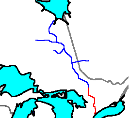 Ontario Northland Railway-owned tracks in blue, trackage rights in red.